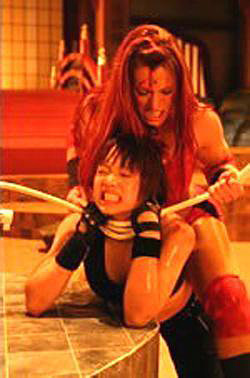 Model April Hunter using a rope to choke Sonim. Image was taken behind the scenes of the movie "Â! Ikkenya puroresu" (aka Home Sweet Battlefield).